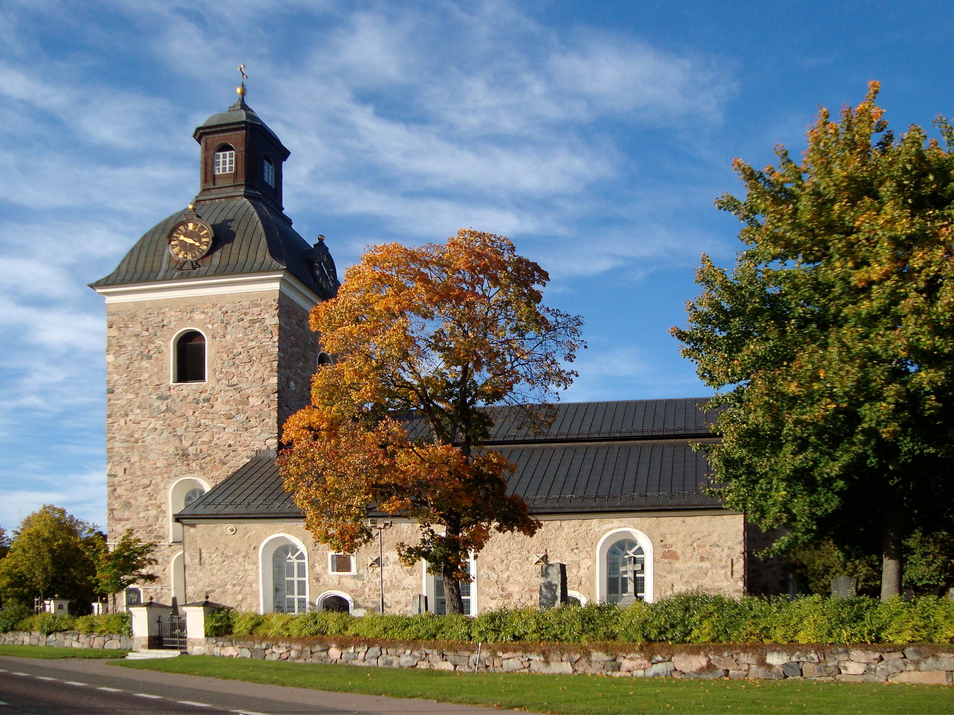 Church of Stora Skedvi, from the 13th century. View from road 786. Säter municipality, Sweden